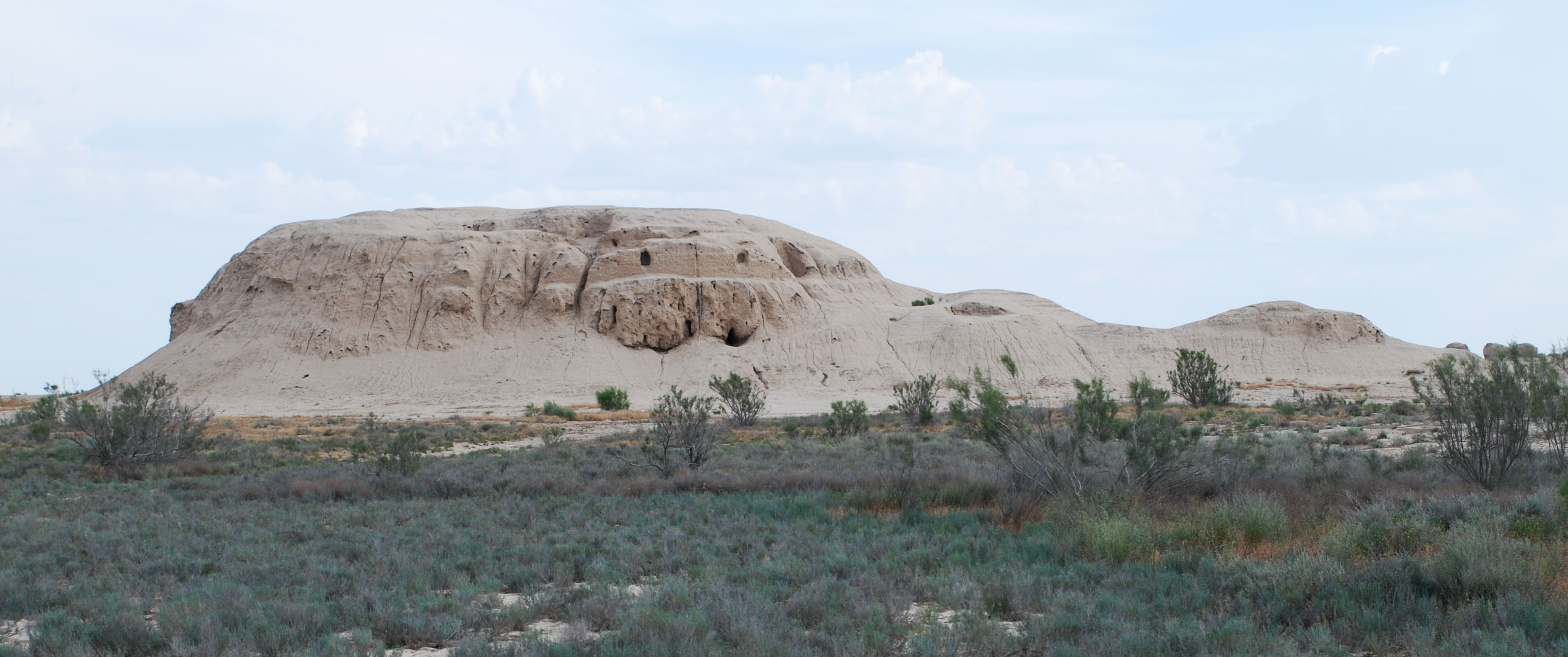 The ruins of the fortress (Altyn-asar)